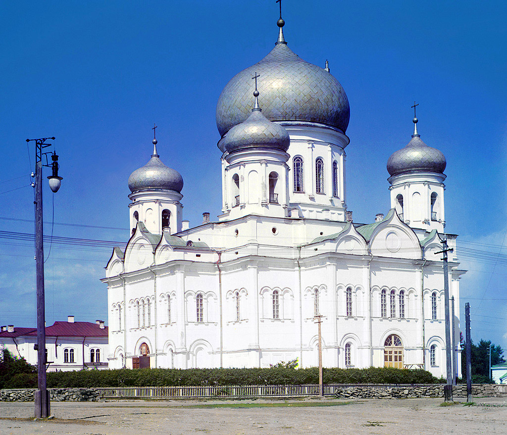 A church in Petrozavodsk, ca. 1912 (arch. Konstantin Thon)